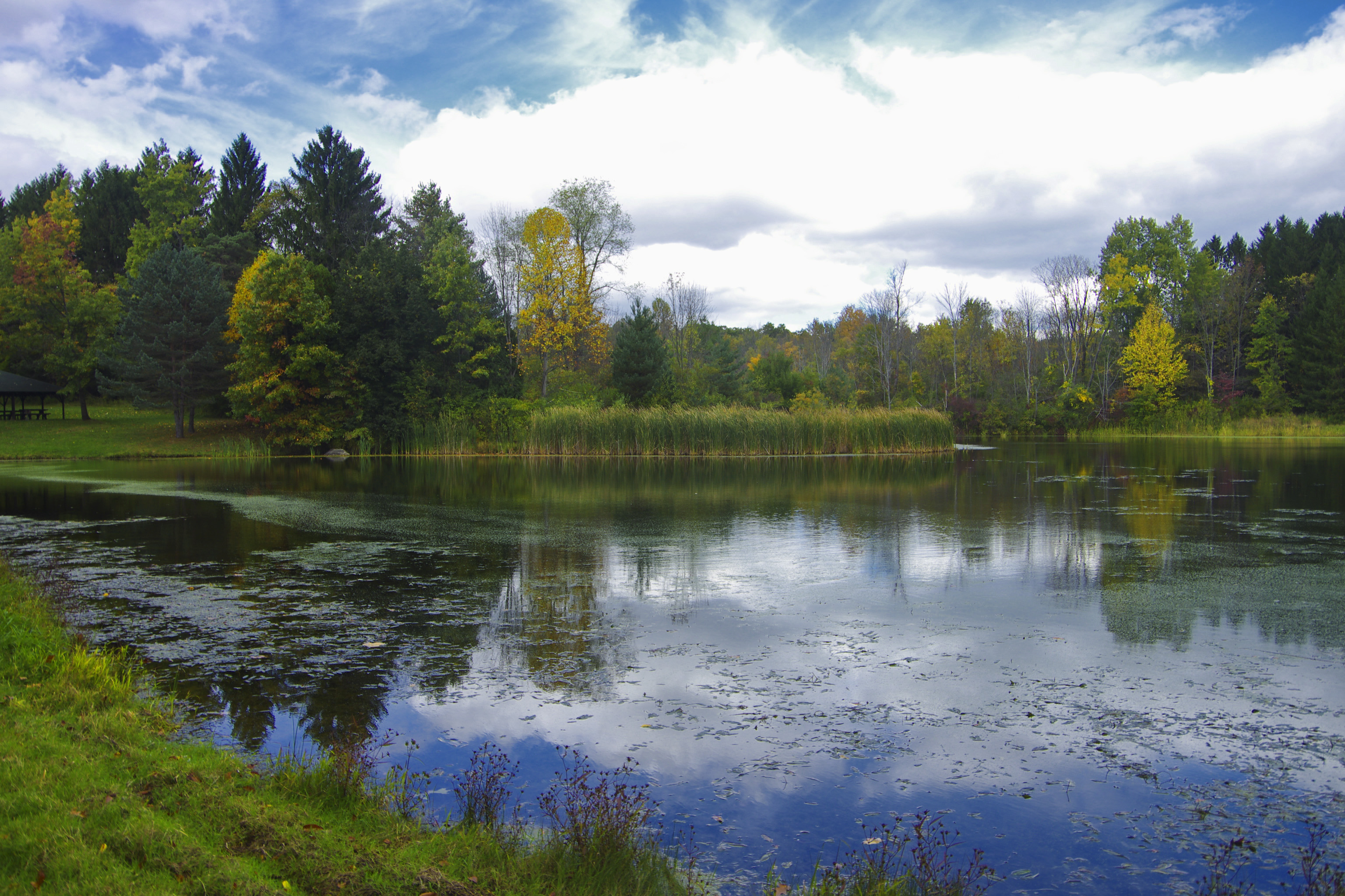 Horseshoe Pond, Cuyahoga Valley National Park, Ohio